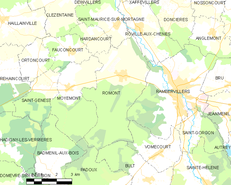 Map of French municipality Romont